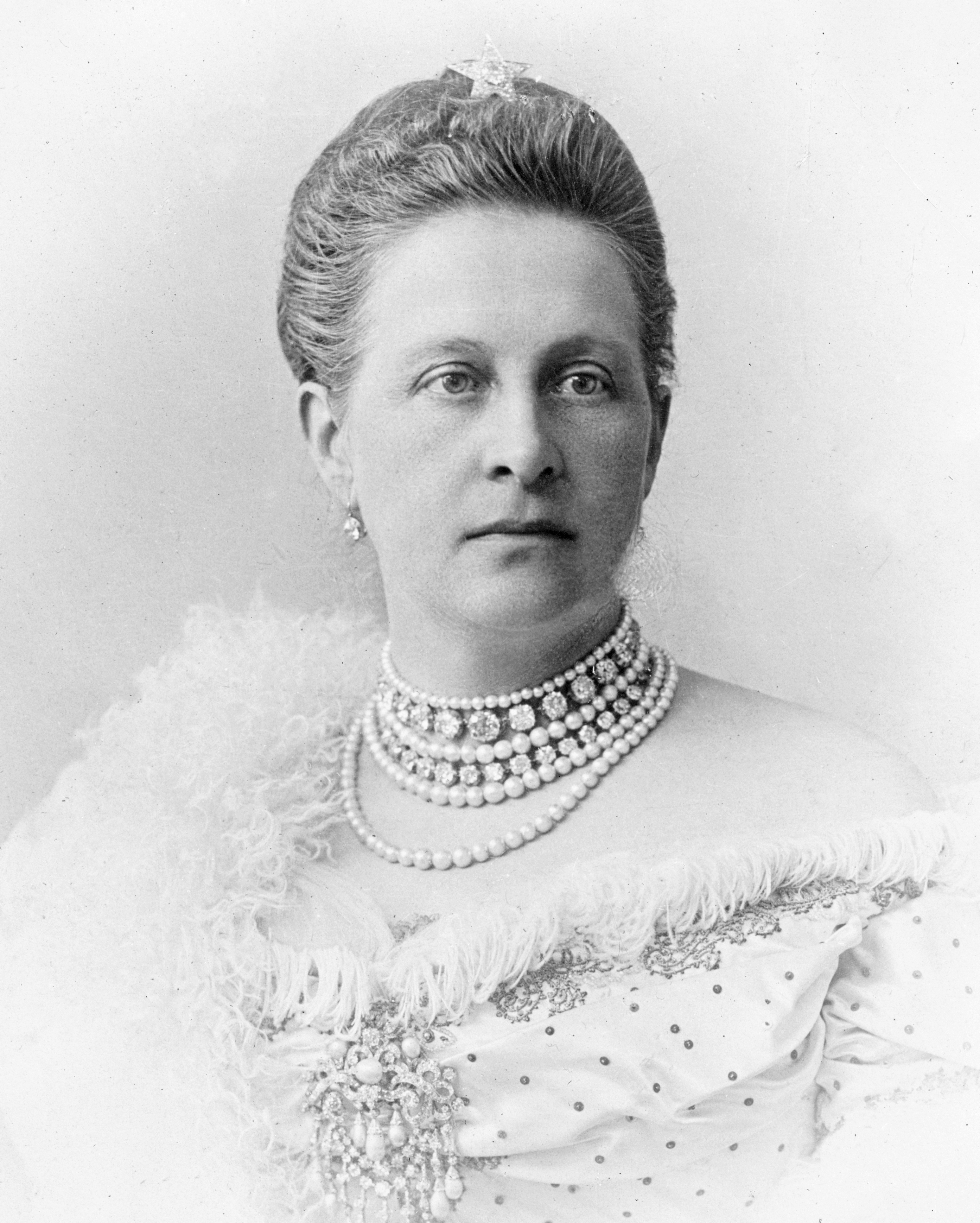 Queen Olga of Greece (Queen Consort of King George I of Greece till 1913)